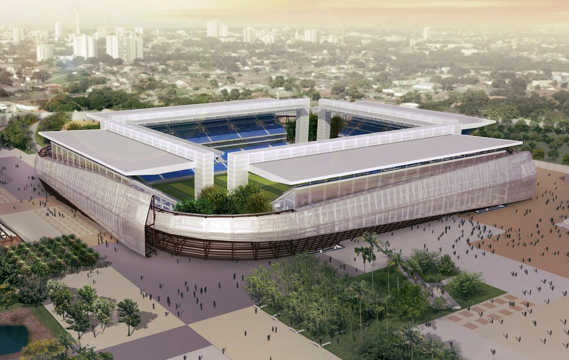 Rendered (and cropped from original) image of Arena Pantanal in 2014.